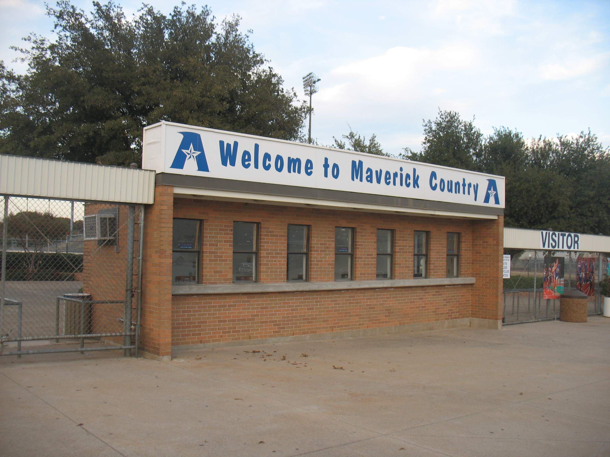 This is the fan entrance into Maverick Stadium